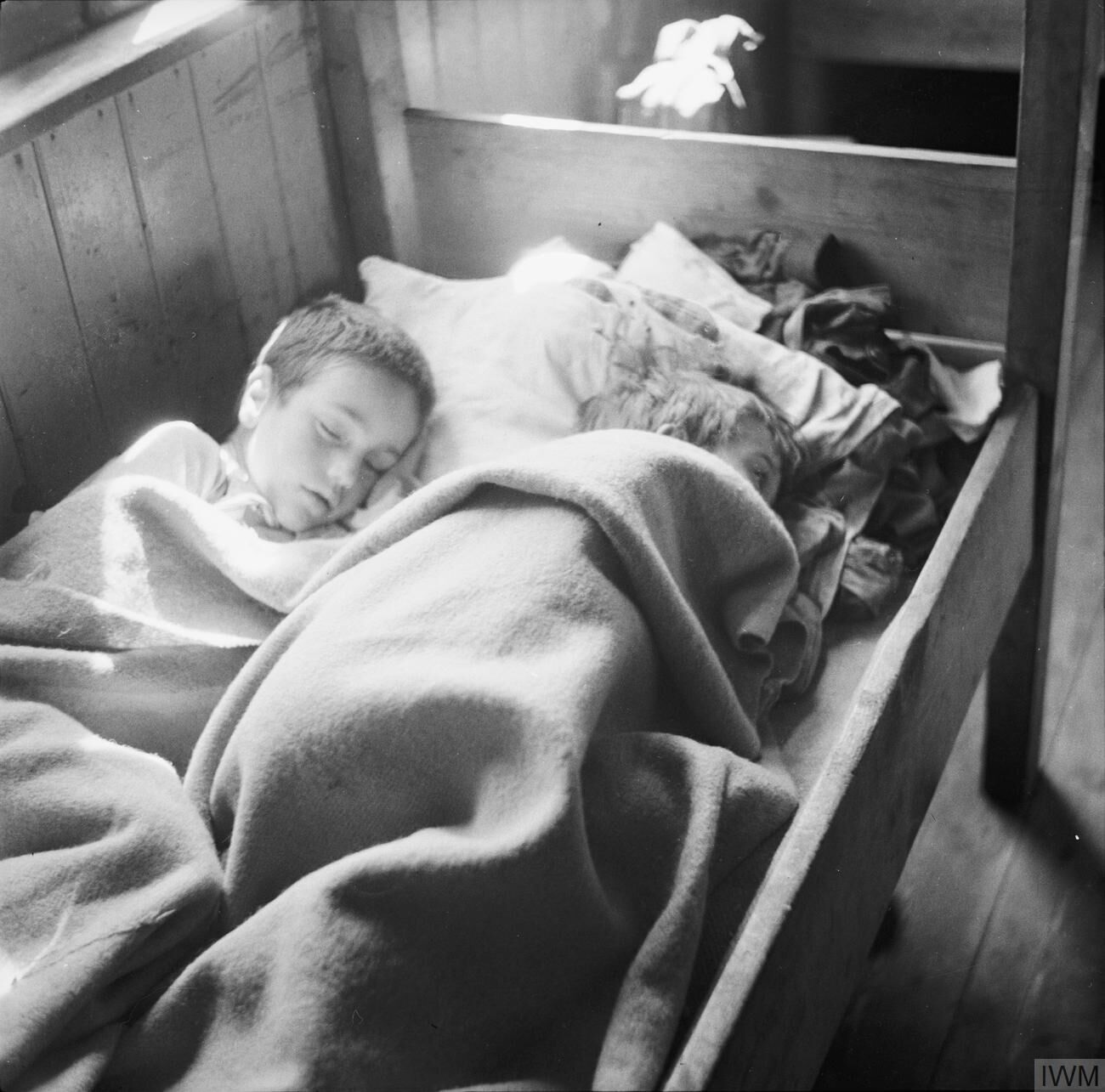 The Liberation of Bergen-belsen Concentration Camp, April 1945 Two children suffering from typhus recover in their new cot in No 3 Camp. They have been bathed, reclothed and put into a clean bed.